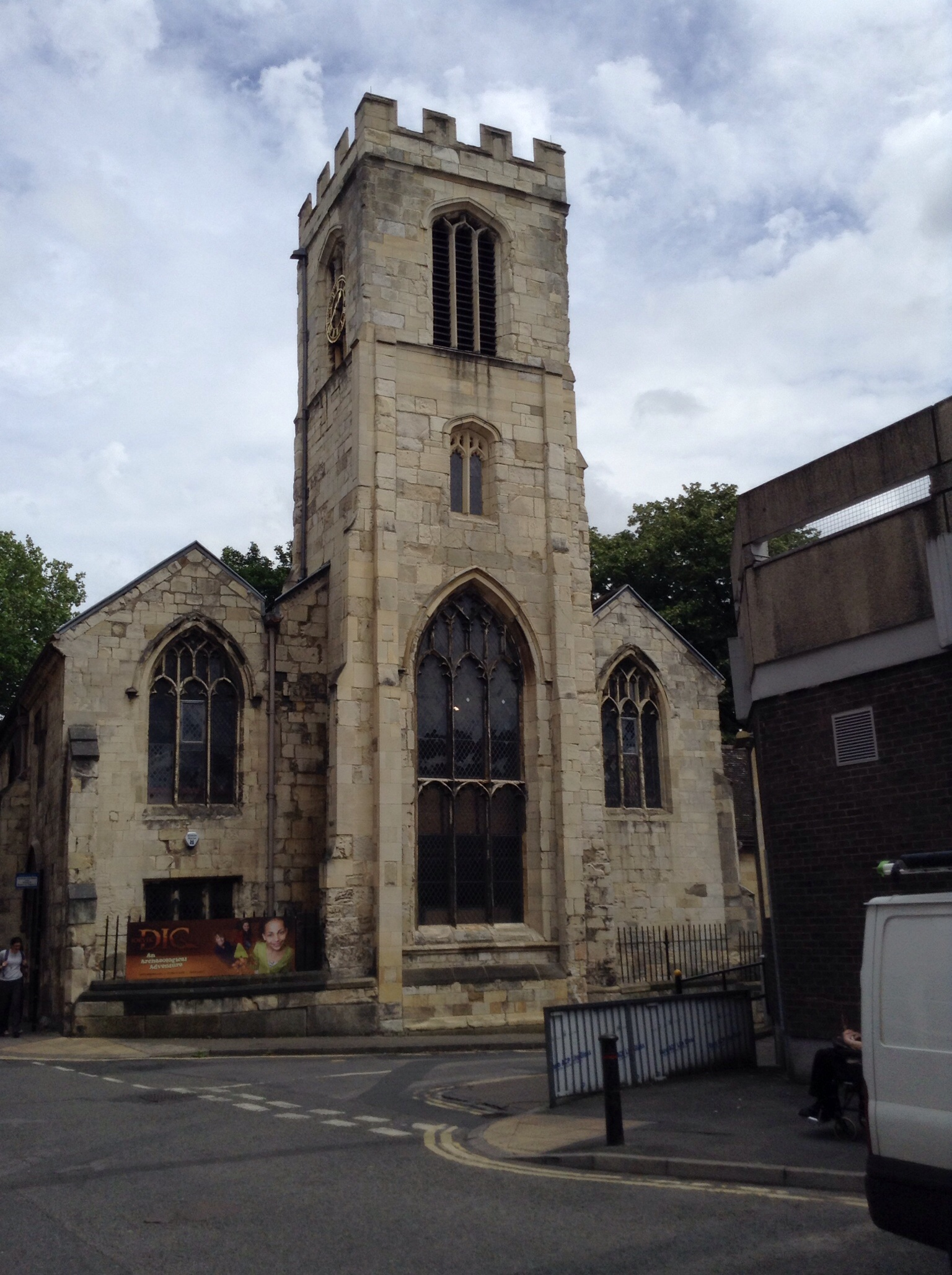 Church of St Saviour and Attached Gates and Railings